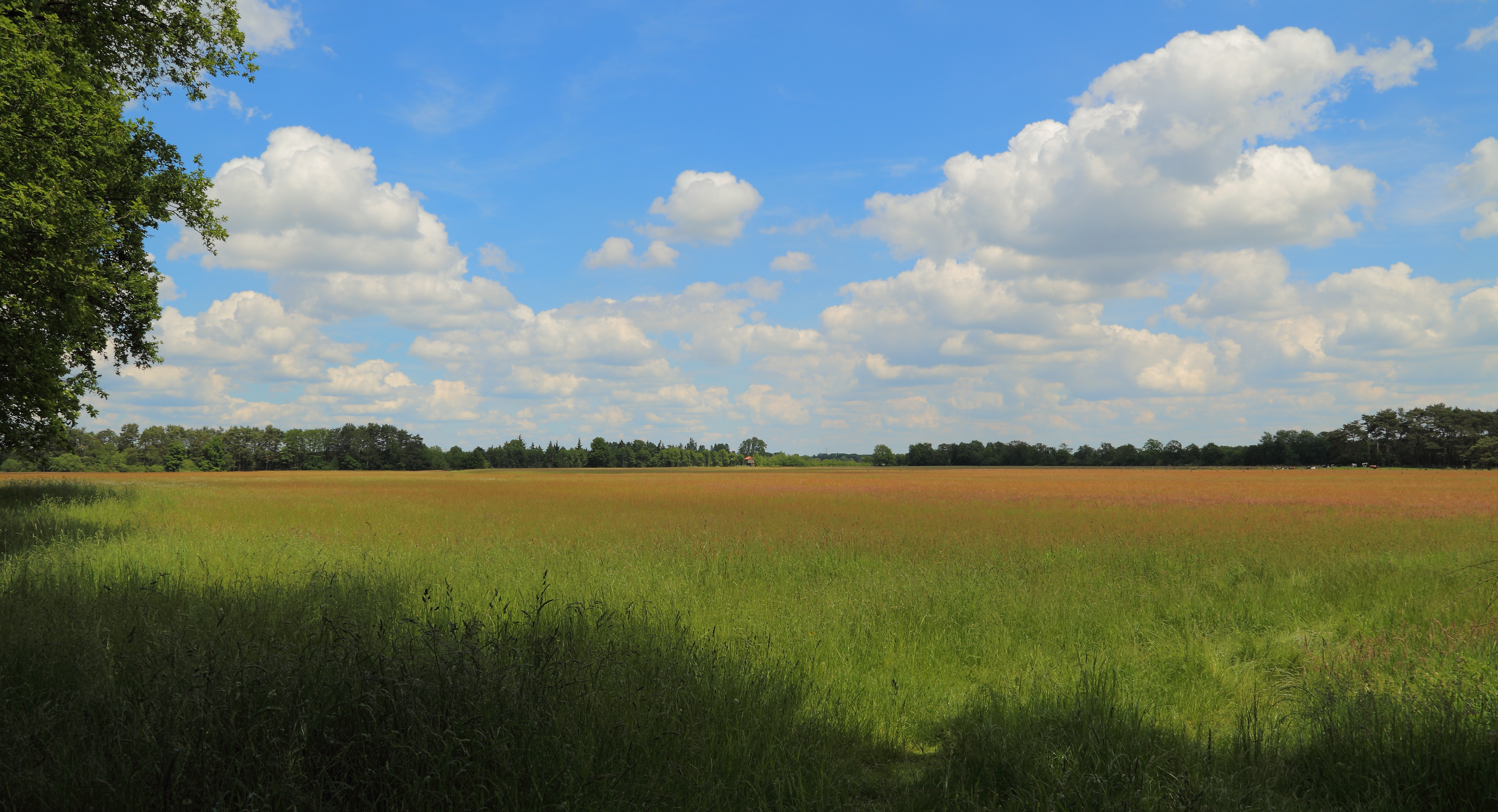 The nature reserve (Naturschutzgebiet/NSG) „Finkenfeld“ in Hopsten-Schale, Kreis Steinfurt, North Rhine-Westphalia, Germany.